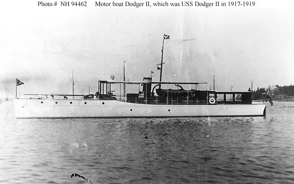 Motorboat Dodger II sometime prior to her 1917-1919 United States Navy service as patrol boat USS Dodger II (SP-46)